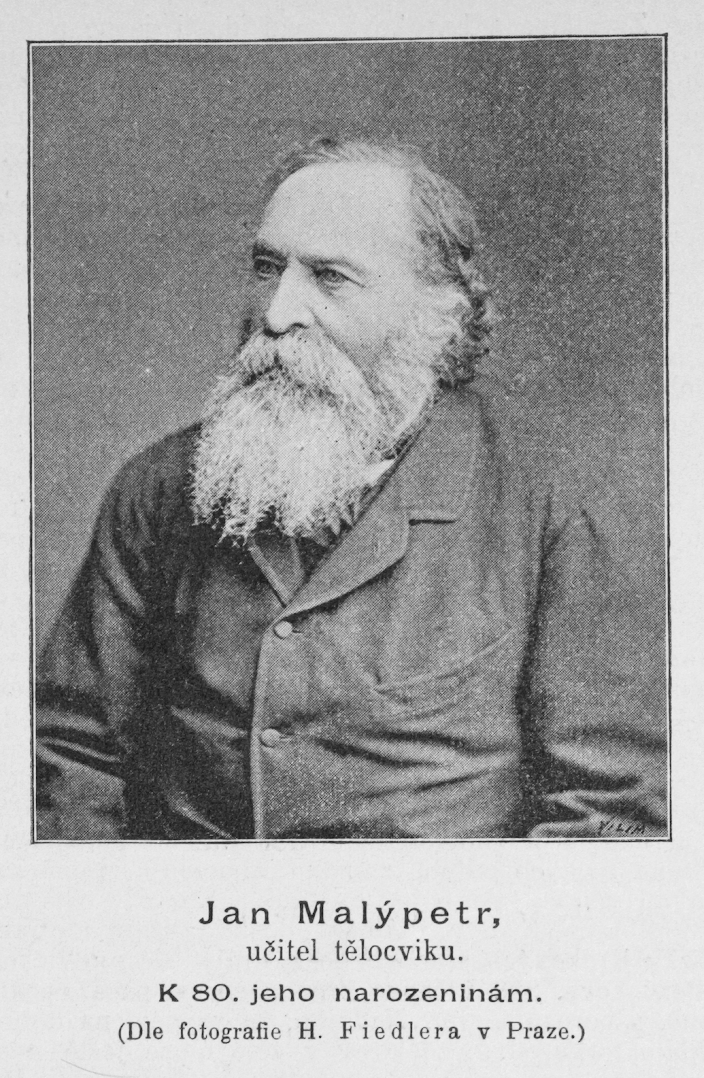 Portrait of Jan Malýpetr (1815-1899), Czech teacher of gymnastics and promoter of physical education. Printed on occasion of his 80th birthday.